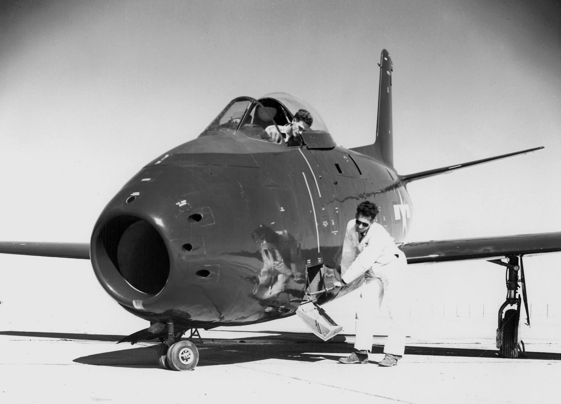 A North American XFJ-1 Fury prototype showing the original "bending nose gear".